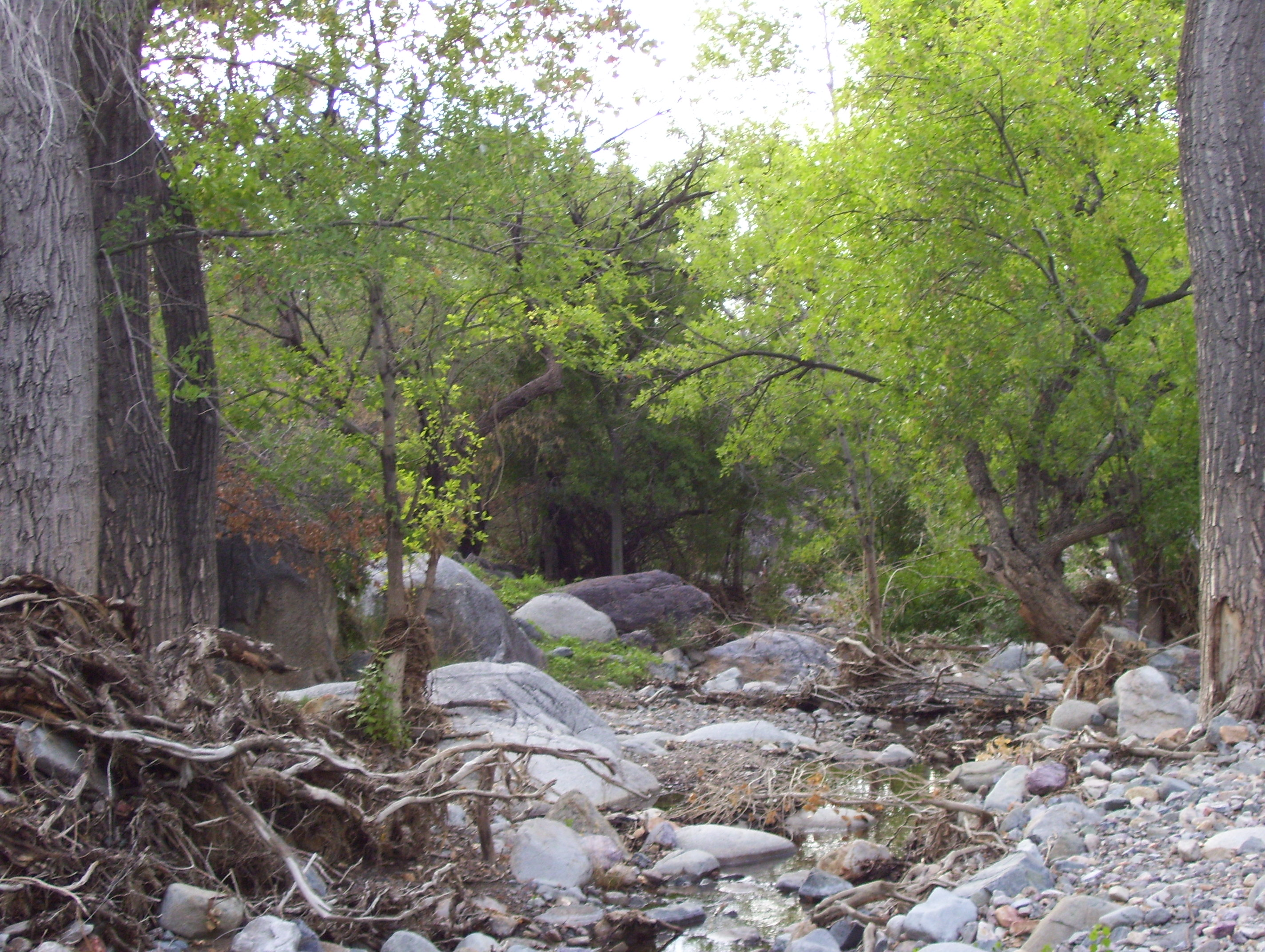 Madera Canyon, Arizona, in 2007.